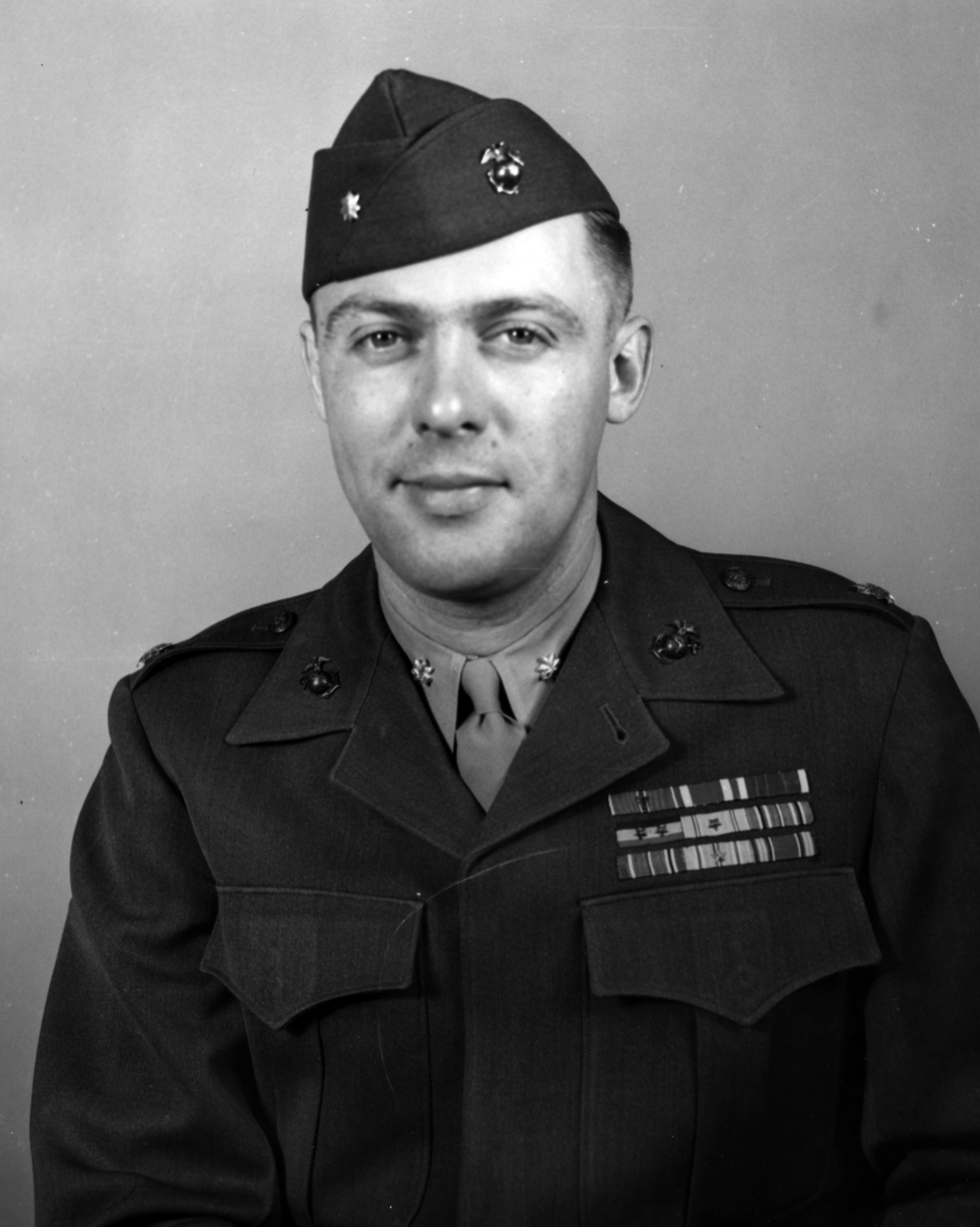 Jonas Mansfield Platt (September 21, 1919 - July 28, 2000) was highly decorated officer in the United States Marine Corps with the rank of Major General. A veteran of three wars, Platt is most noted for his service during Vietnam War as Assistant Division Commander, 3rd Marine Division and Commander of Task Force Delta. He was also a member of so-called "Chowder Society", special Marine Corps Board, which was tasked to conduct research and prepare material relative to postwar legislation concerning the role of the Marine Corps in national defense. Here shown as Major.